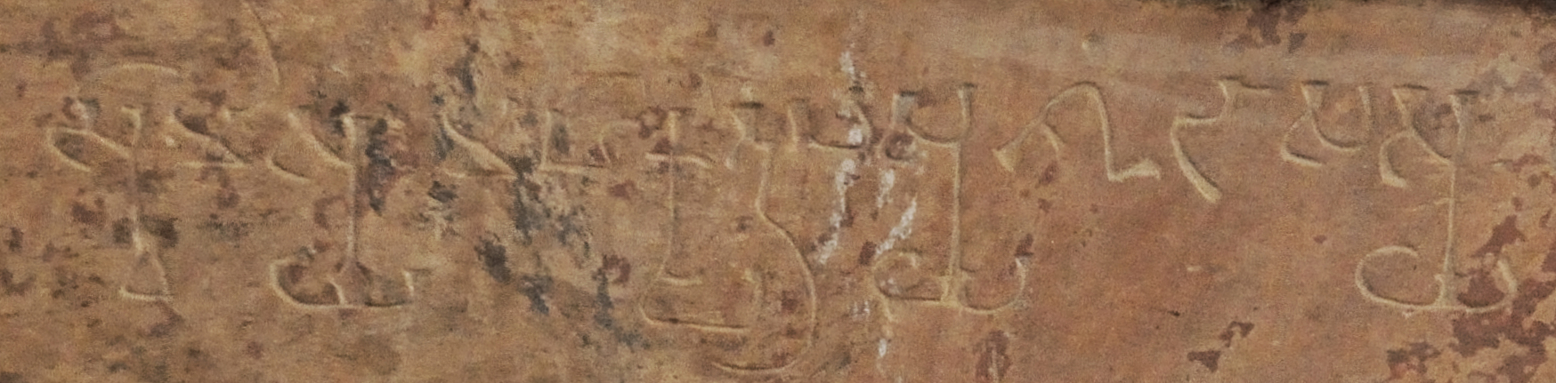 Svamisya Mahakshatrapasya Sudasasya